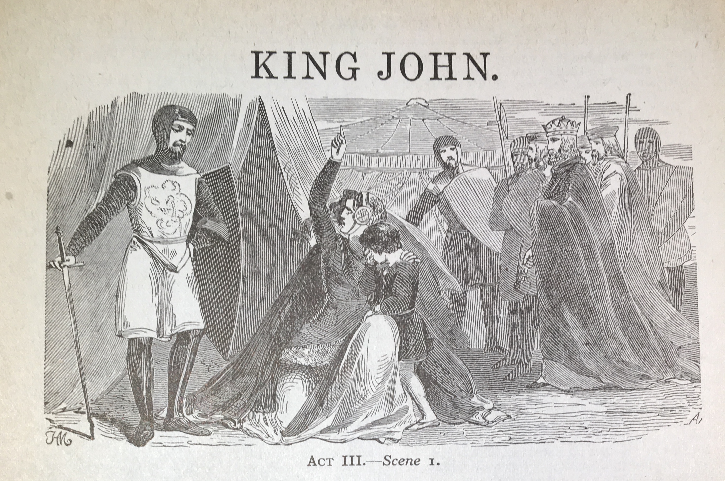 A lithograph image depicting a scene from King John